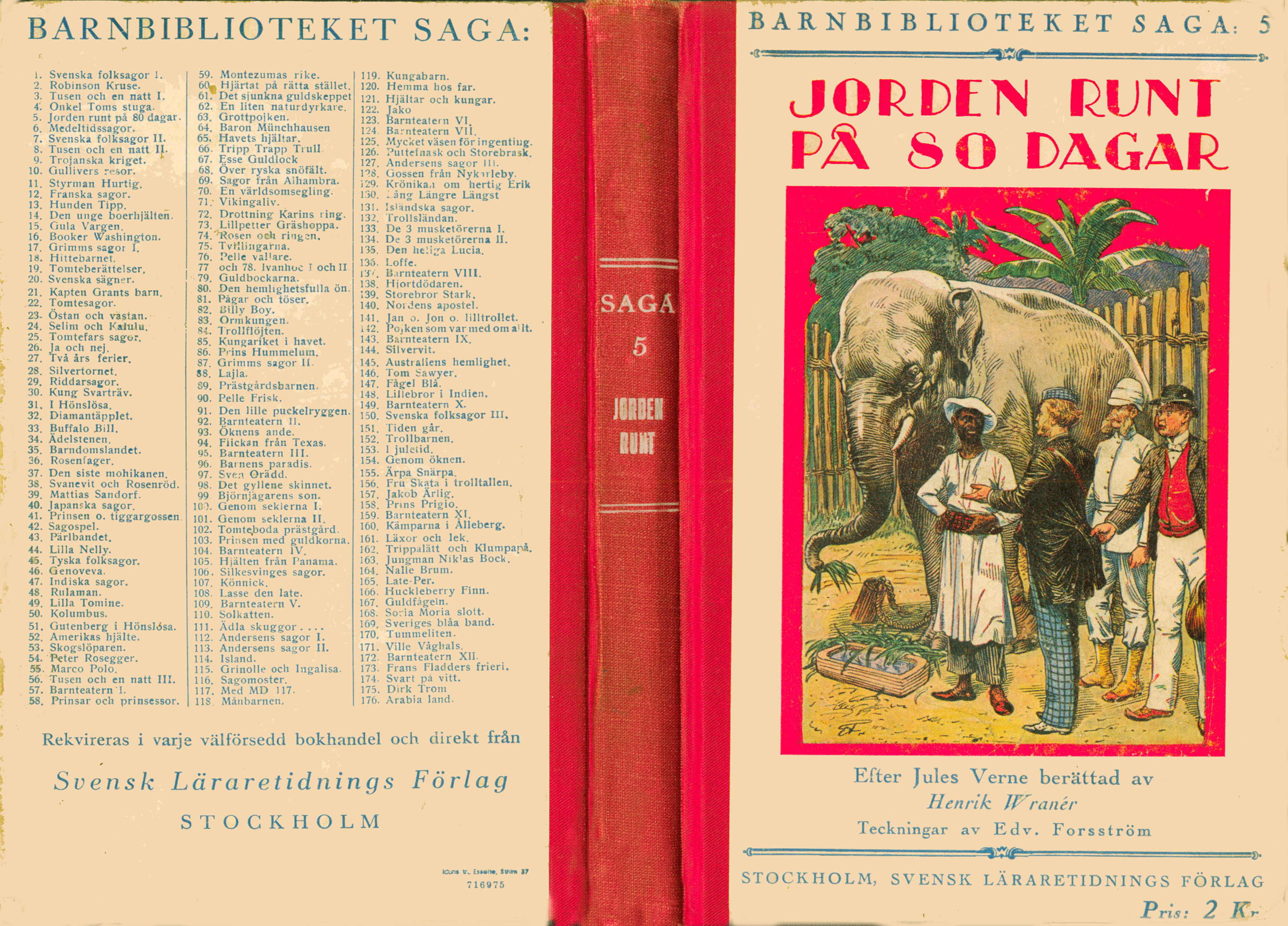 Cover of No. 5 in the children's book series Barnbiblioteket Saga